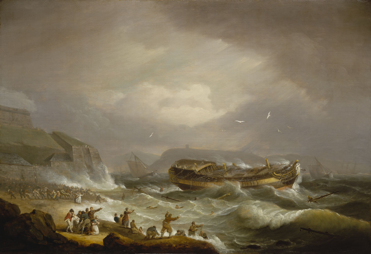 Oil on Canvas of The Wreck of the East Indiaman 'Dutton' at Plymouth Sound on 26 January 1796 painted by Thomas Luny in 1821